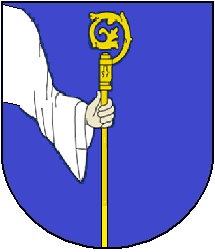 Coat of arms of Lajoux, Canton of Jura, Switzerland